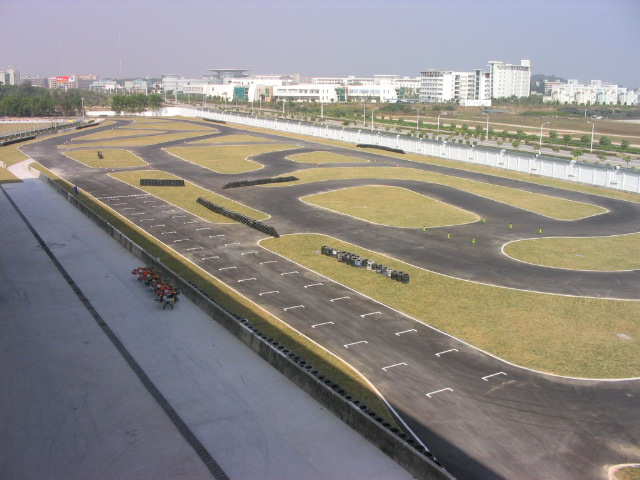 Taken by user user:Ngchikit on 17 Dec 2004.